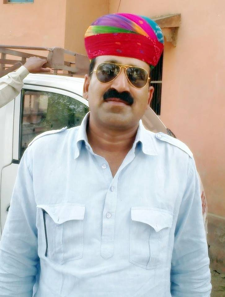 Ajeetpura Sarpanch